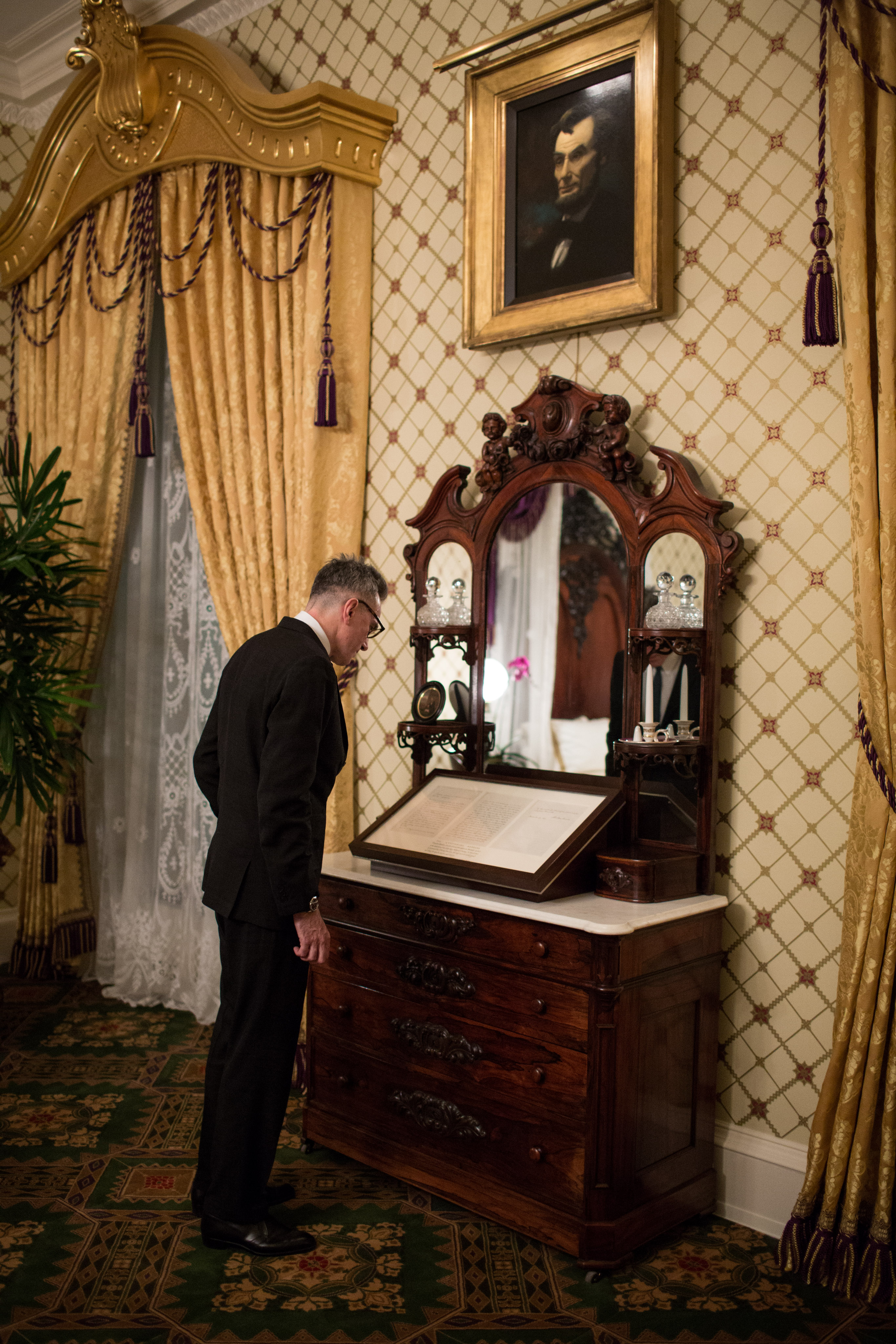 Daniel Day-Lewis viewing the Gettysburg Address in the Lincoln Bedroom in the White House following a screening of the film, 'Lincoln', in the White House family theatre attended by United States President Barack Obama with the film director, screenwriter and many of the actors attending, including Day Lewis, who played Abraham Lincoln.